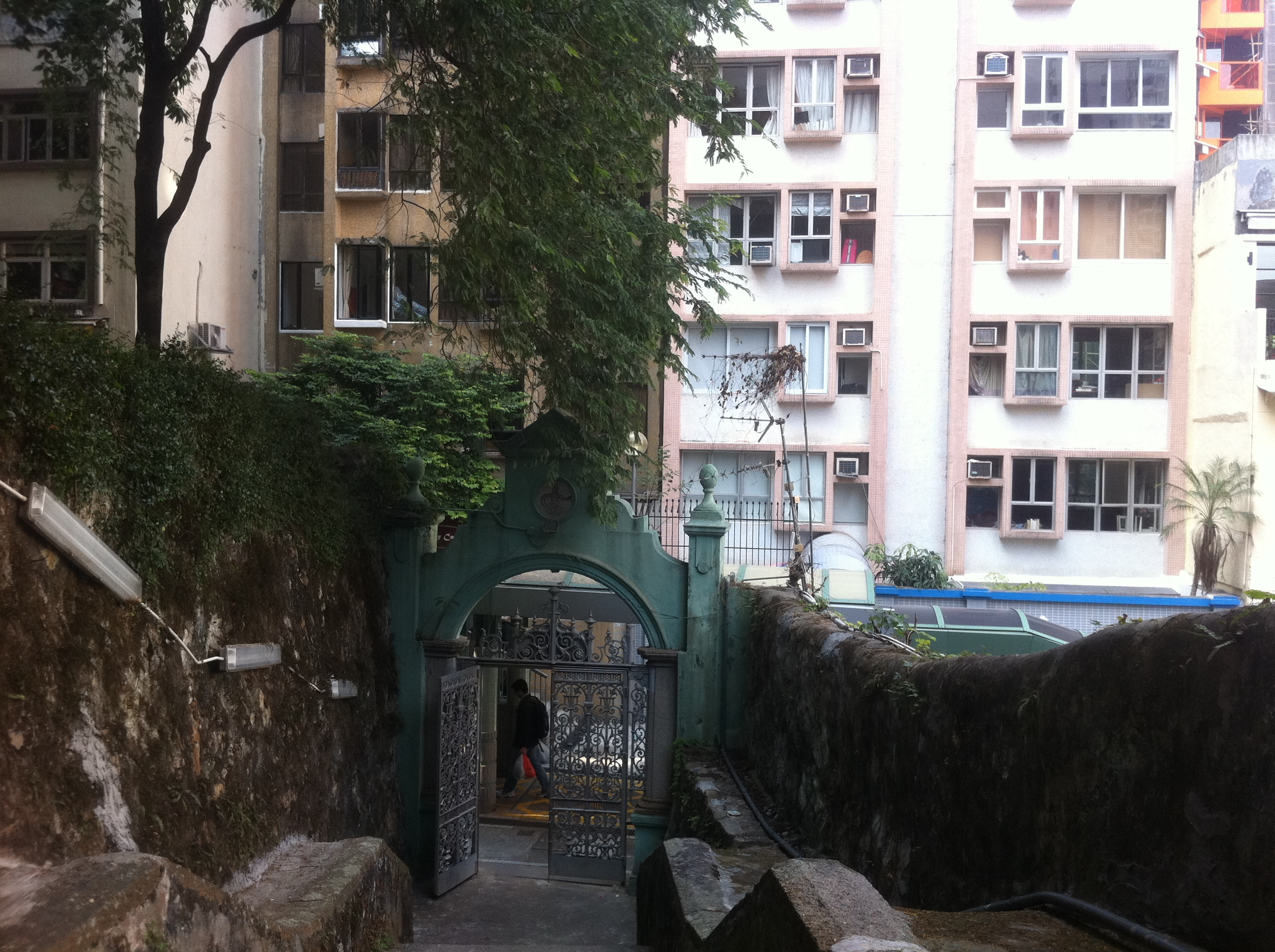 些利街清真寺